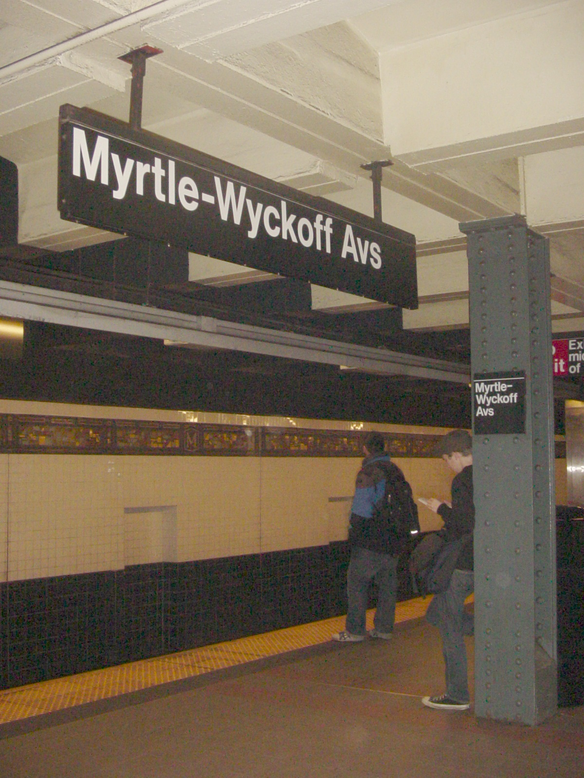 Myrtle–Wyckoff Avenues (BMT Canarsie Line) station platform, looking at northbound (westbound) track.